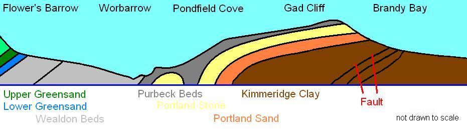 Geology of the coast line by Worbarrow Tout and Pondfield Cove